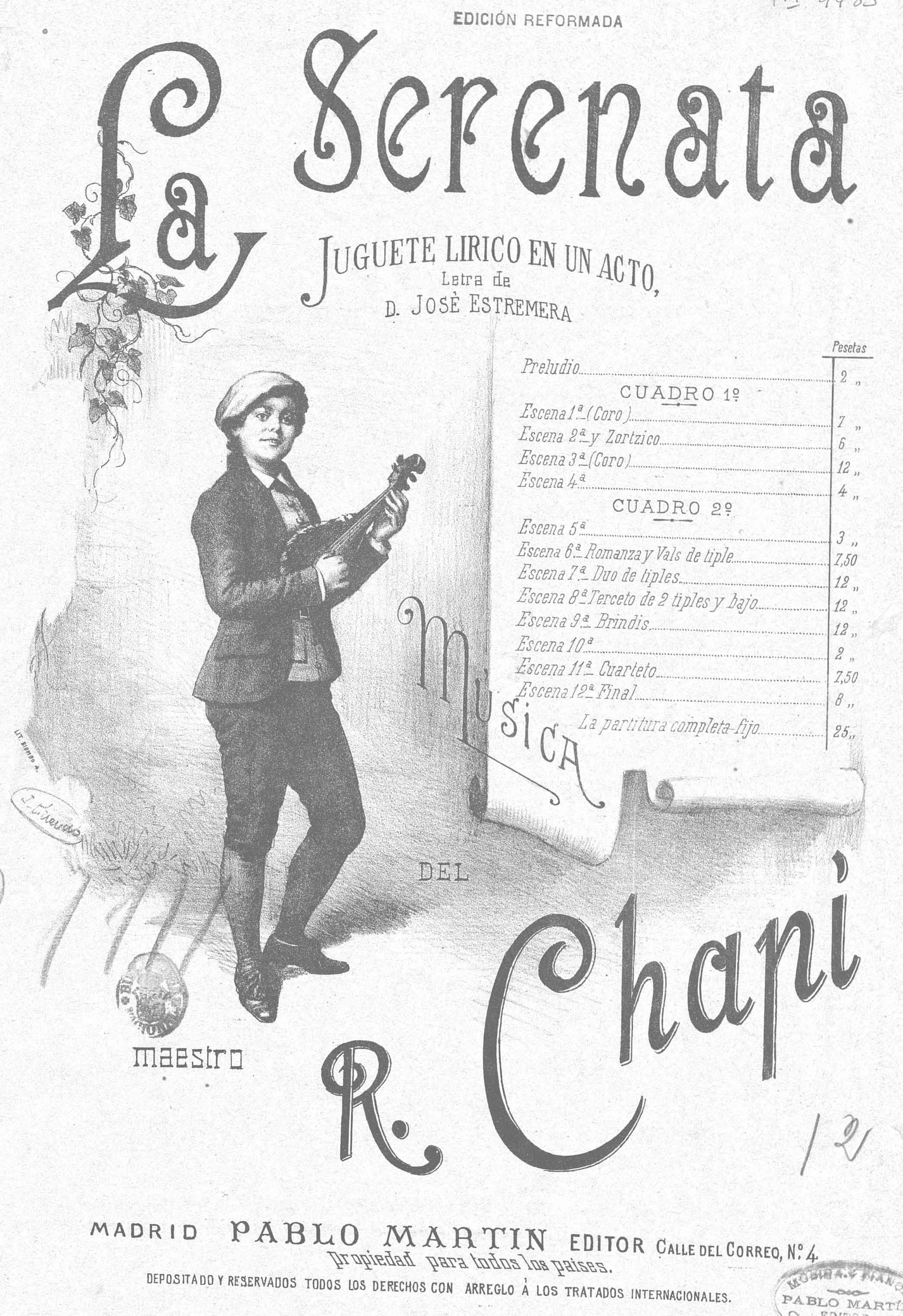 Title page of the vocal score of La serenata (1891) by Ruperto Chapí (ca.1896).